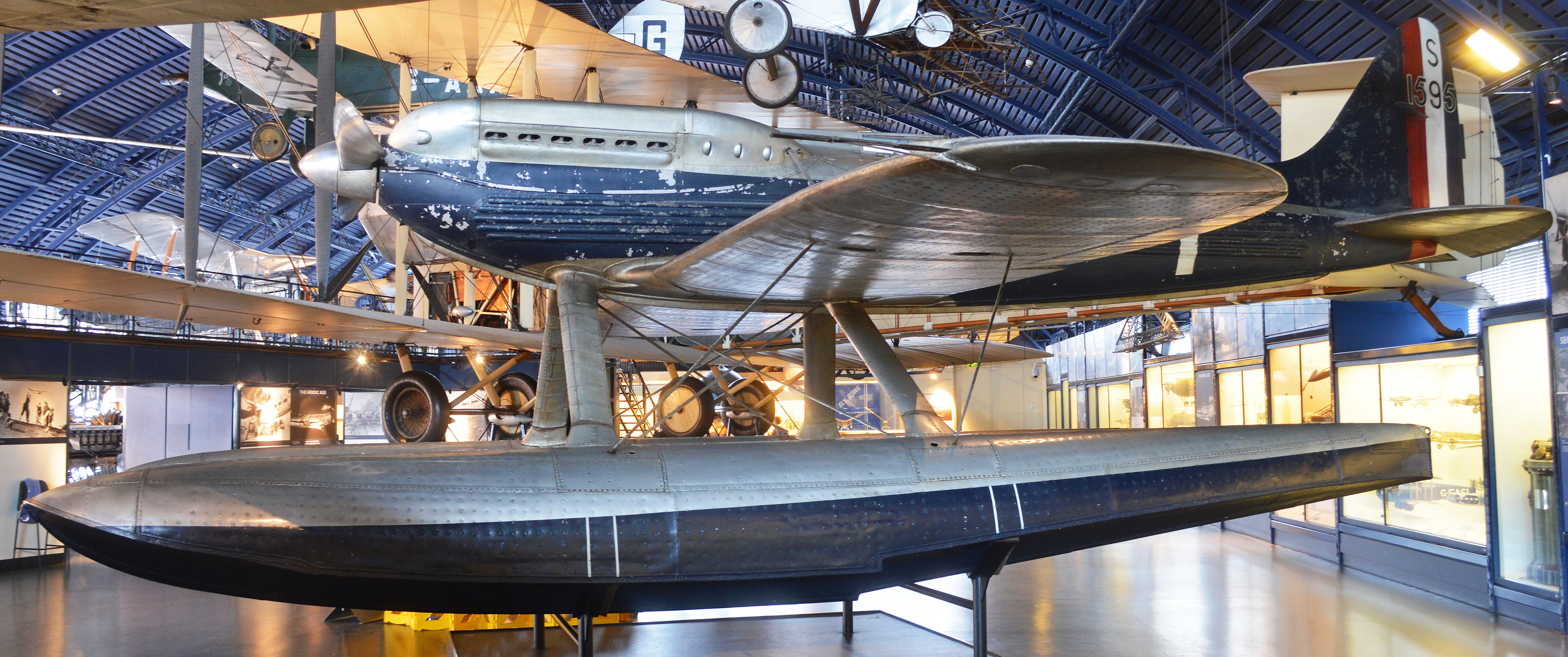 Winner of the Schneider Trophy, 1931. Designed by Reginald J. Mitchell, it was a development of Mitchell's earlier S.4 which had won the 1925 Schneider Trophy race. The S.6B was powered by a supercharged Rolls-Royce 1900 hp engine. It marked the culmination of Mitchell's quest to "perfect the design of the racing seaplane" and represented the cutting edge of aerodynamic technology. It is one of the major technical achievements in British aviation between the two world wars. Not only did the aircraft win the 1931 Schneider Trophy, but also, two weeks later, became the fastest vehicle on earth, setting an absolute speed record of 407.5 mph It joined the Science Museum in 1932 and is now on display, still unrestored, in the ‘Flight’ Hall. Science Museum, South Kensington, London. 16-6-2015